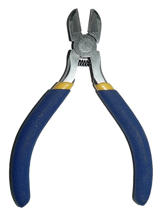 electrical side cutters